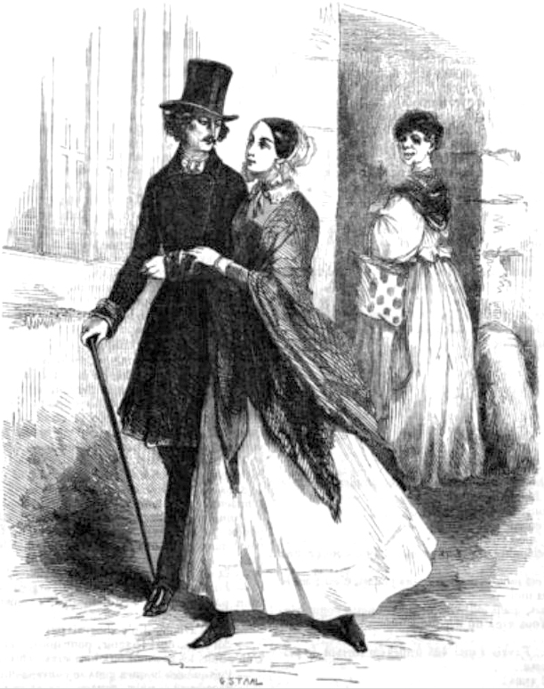 Rodolphe and Rigolette off to church.